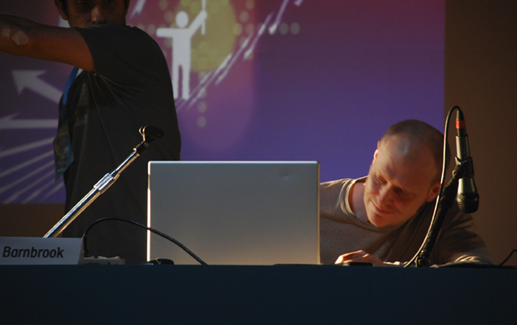 A portrait of Jonathan Barnbrook (British graphic designer and typographer) during a conference in Florence, Italy ("Festival della Creatività" - 2008).